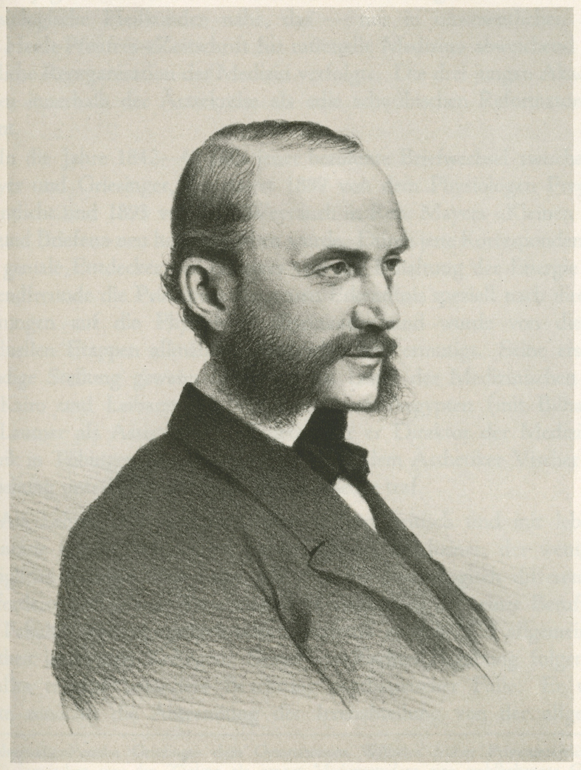 Portrait of Wilhelm Griesinger (1817–1868)